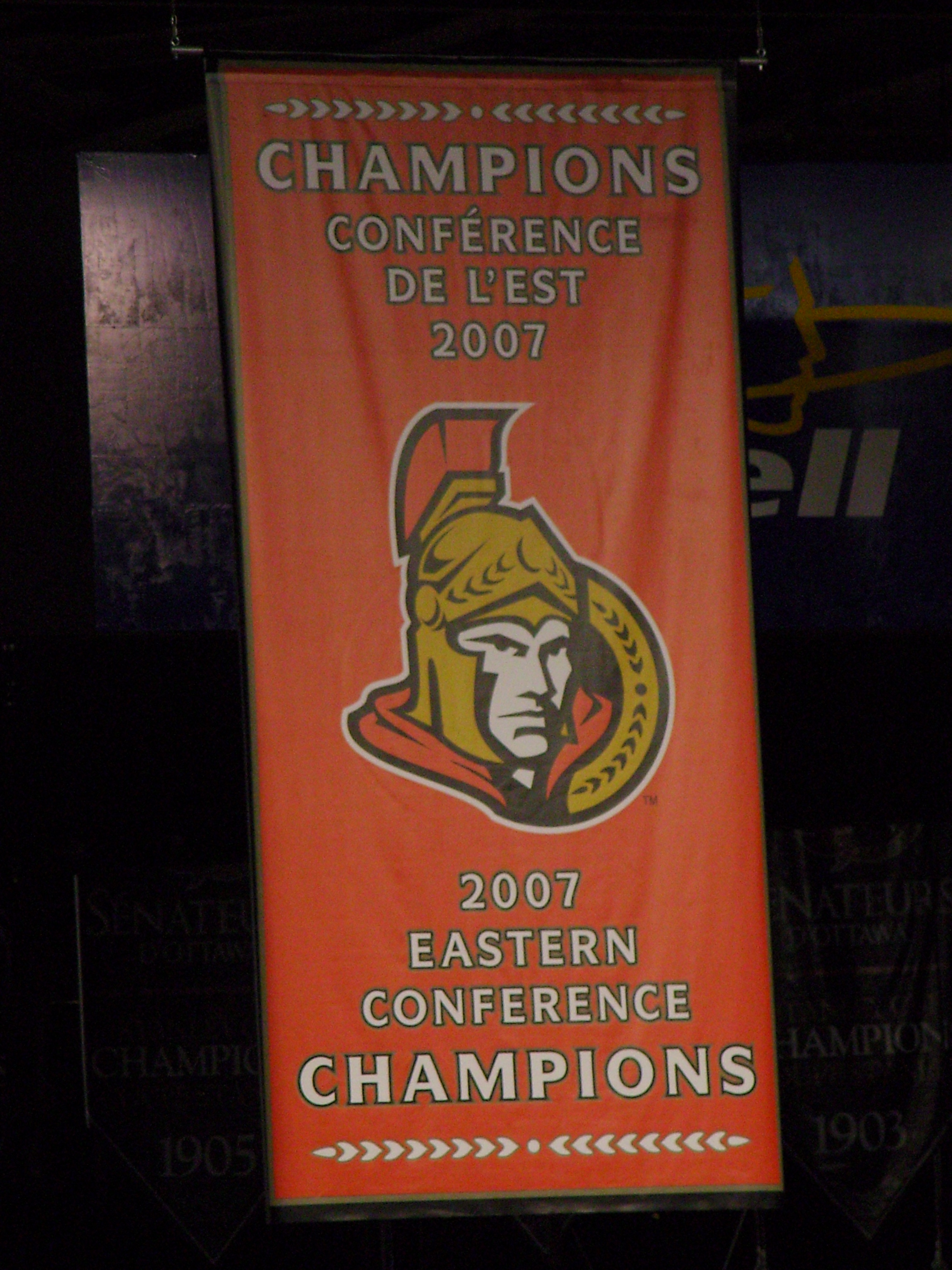 Banner commemorating 2006-07 Ottawa Senators season.